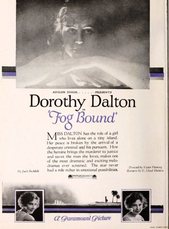 Early advertisement for the forthcoming American drama film Fog Bound (1923) with Dorothy Dalton, page 38 from the insert of upcoming Paramount films for 1923, from the collection of loose pages from the 1922 Exhibitors Trade Review. By the time the film was made, it had a different director and screenwriter than that listed on this ad.